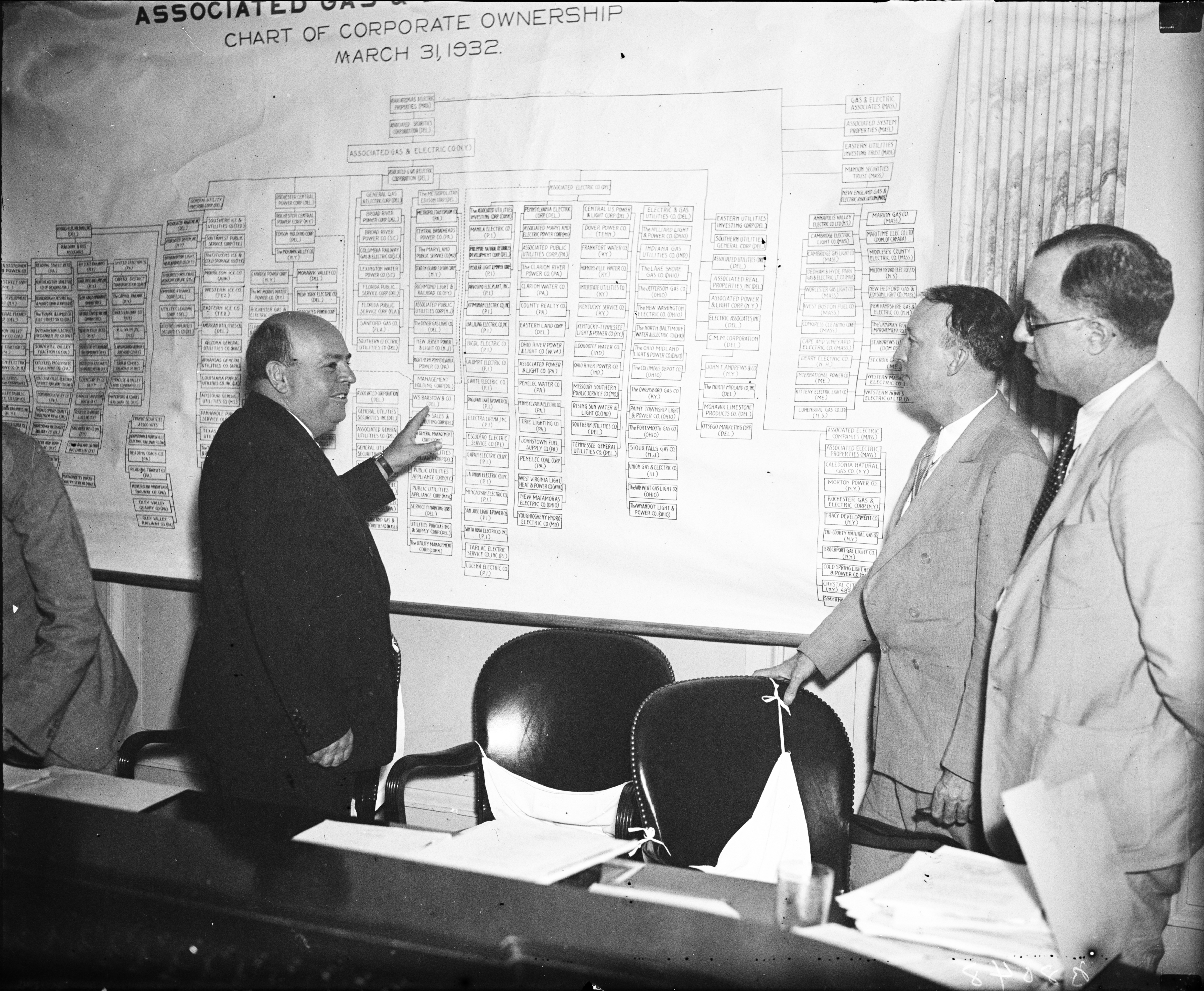 Hopson explains AG&E set-up. Howard C. Hopson, utility mogul, points out various intracicies of the Associated Gas & Electric System set-up to Senators who are questioning him at the Senate Lobby Investigating Committee. Senators Lewis B. Schwellenback, D. of Wash., and Hugo L. Black, D. of Ala., are in the picture with Hopson.